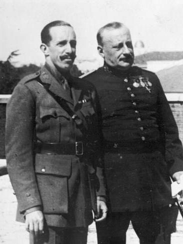 Dictatorial Prime Minister Miguel Primo de Rivera (r) and the King of Spain, Alfonso XIII (l).